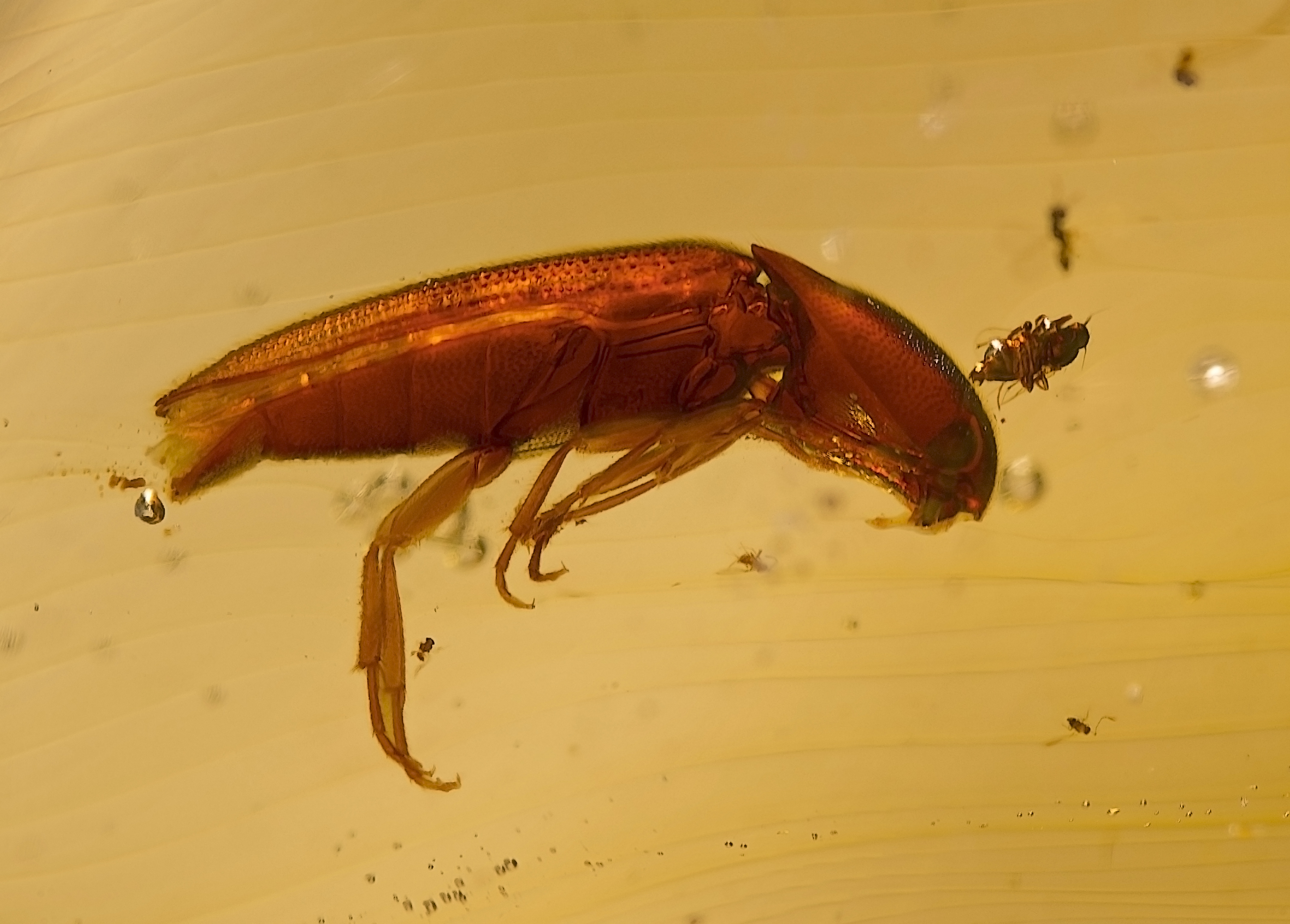 Elateridae in copal from Madagascar. Size of specimen 9.6mm